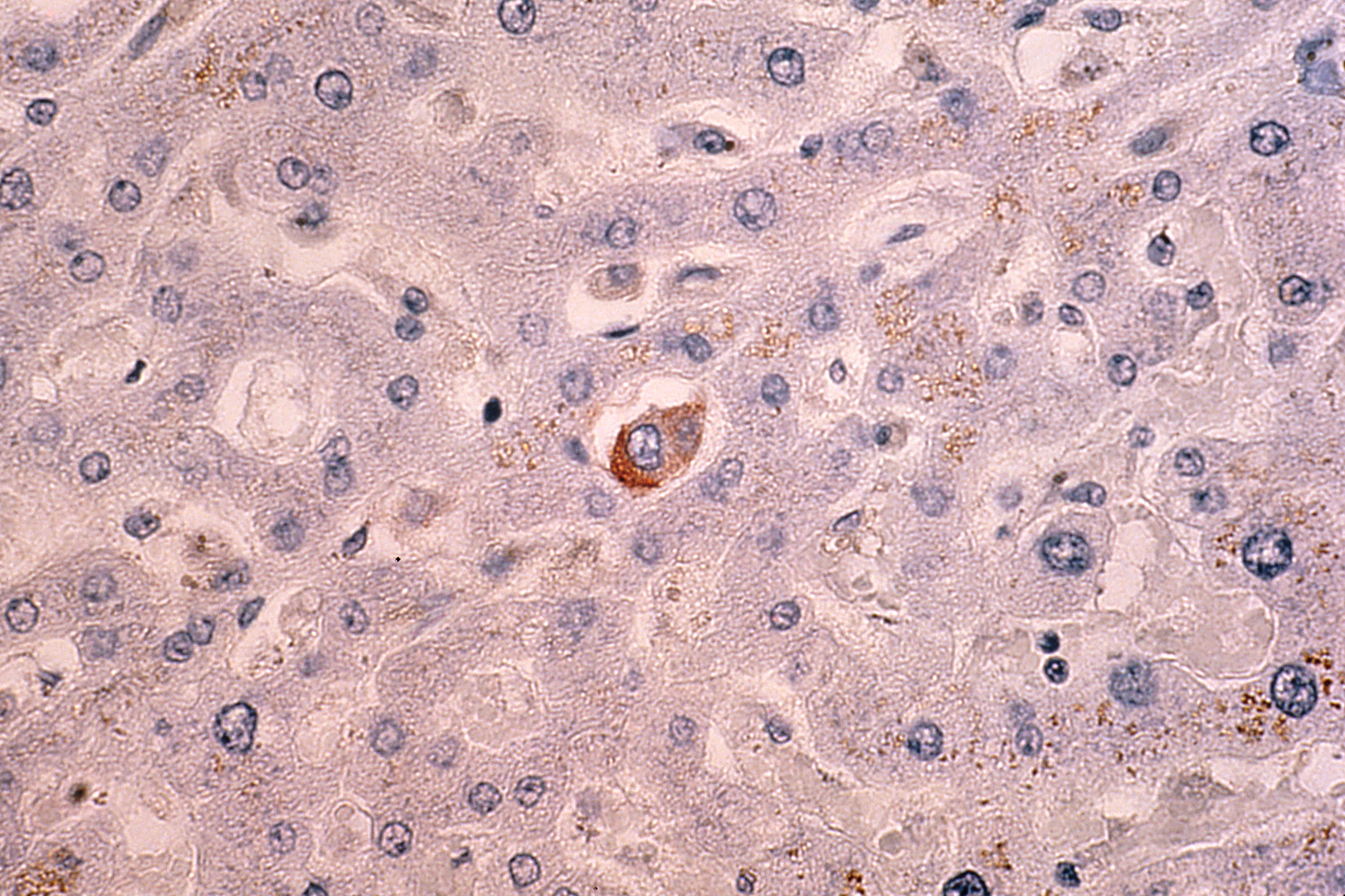 Title Breast Cancer Metastasis to Liver Description A single malignant breast cancer cell is seen circulating within the hepatic (liver) sinusoids (monoclonal antibody b1.1, abc immunoperoxidase method, hematoxylin counterstain, x500). Topics/Categories Cancer Types -- Breast Cancer Cells or Tissue -- Abnormal Cells or Tissue Type Color, Photo Source National Cancer Institute